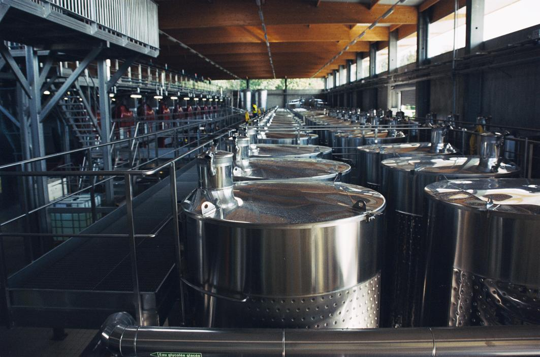 From author "Vintage 2008 at the Möet & Chandon Romont wine pressing center, Champagne, France."